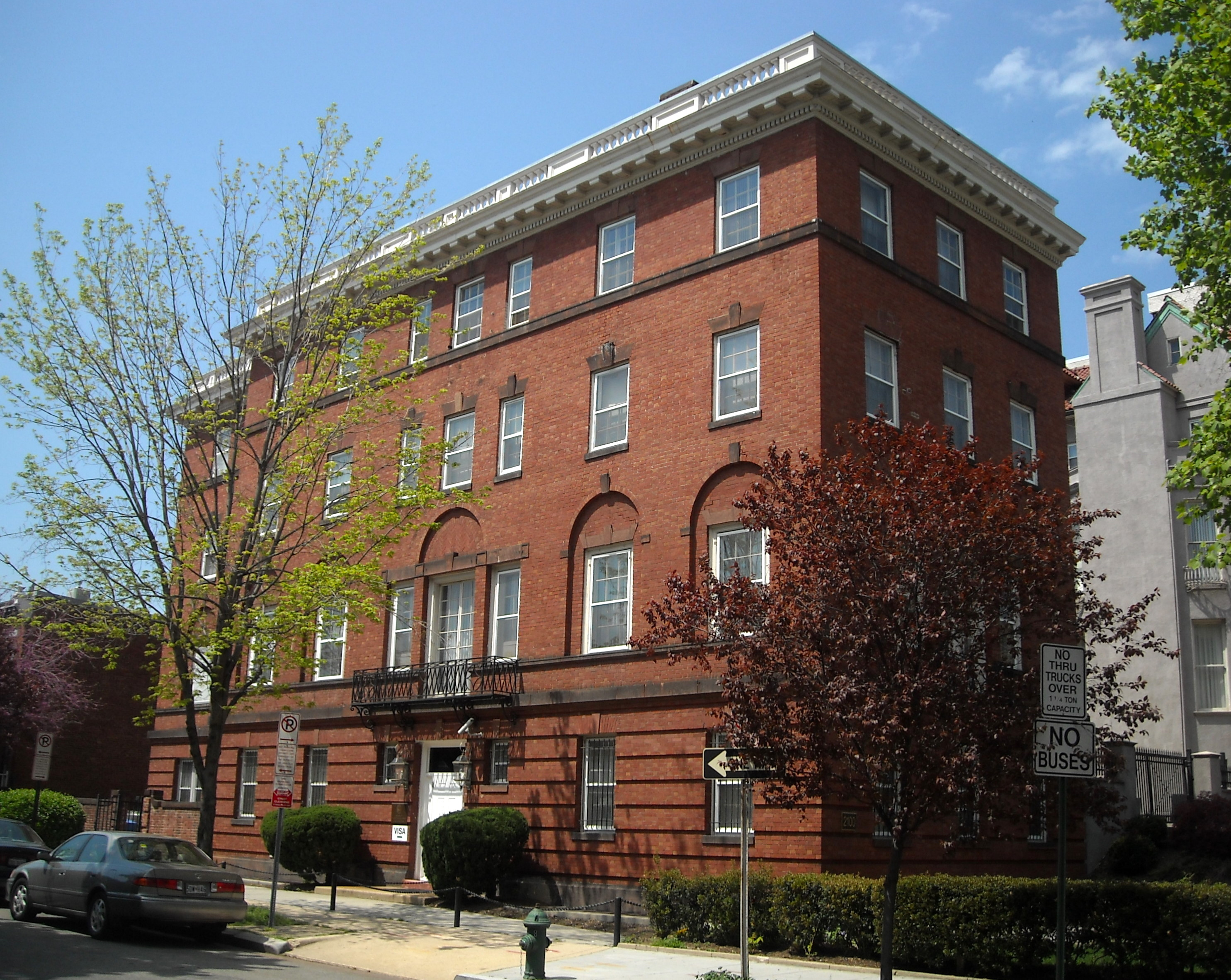 The Embassy of Angola is the diplomatic mission of Angola to the United States. The embassy is located at 2100 (pictured) and 2108 16th Street NW in Washington, D.C. The building located at 2100 16th Street NW was constructed in 1911 and designed by George Oakley Totten Jr.. Notable past owners of the residence include Charles Evans Hughes (while serving on the Supreme Court and during the 1916 U.S. presidential election) and the Bulgarian embassy. The building is a contributing property to the Sixteenth Street Historic District.